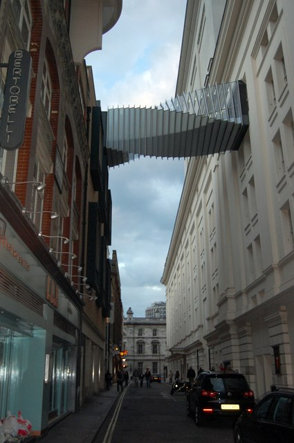 Floral Street, Covent Garden Early evening, looking along Floral Street with the twisty bridge above.